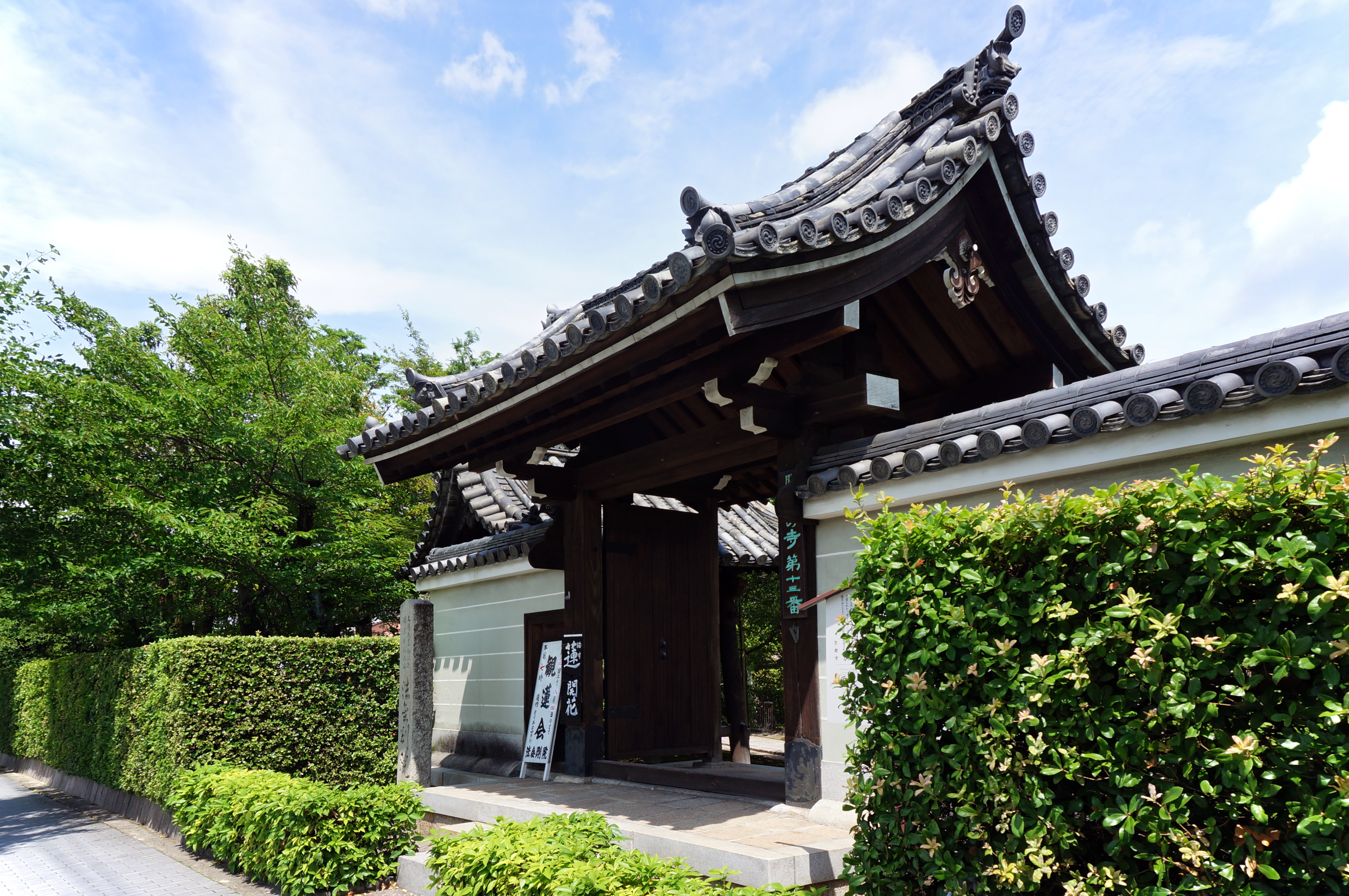 Hōkongō-in in Ukyō-ku, Kyoto, Kyoto Prefecture, Japan. Seijo-no-taki of Hōkongō-in Garden that is an extremely important cultural asset of Japan "Special Places of Scenic Beauty"